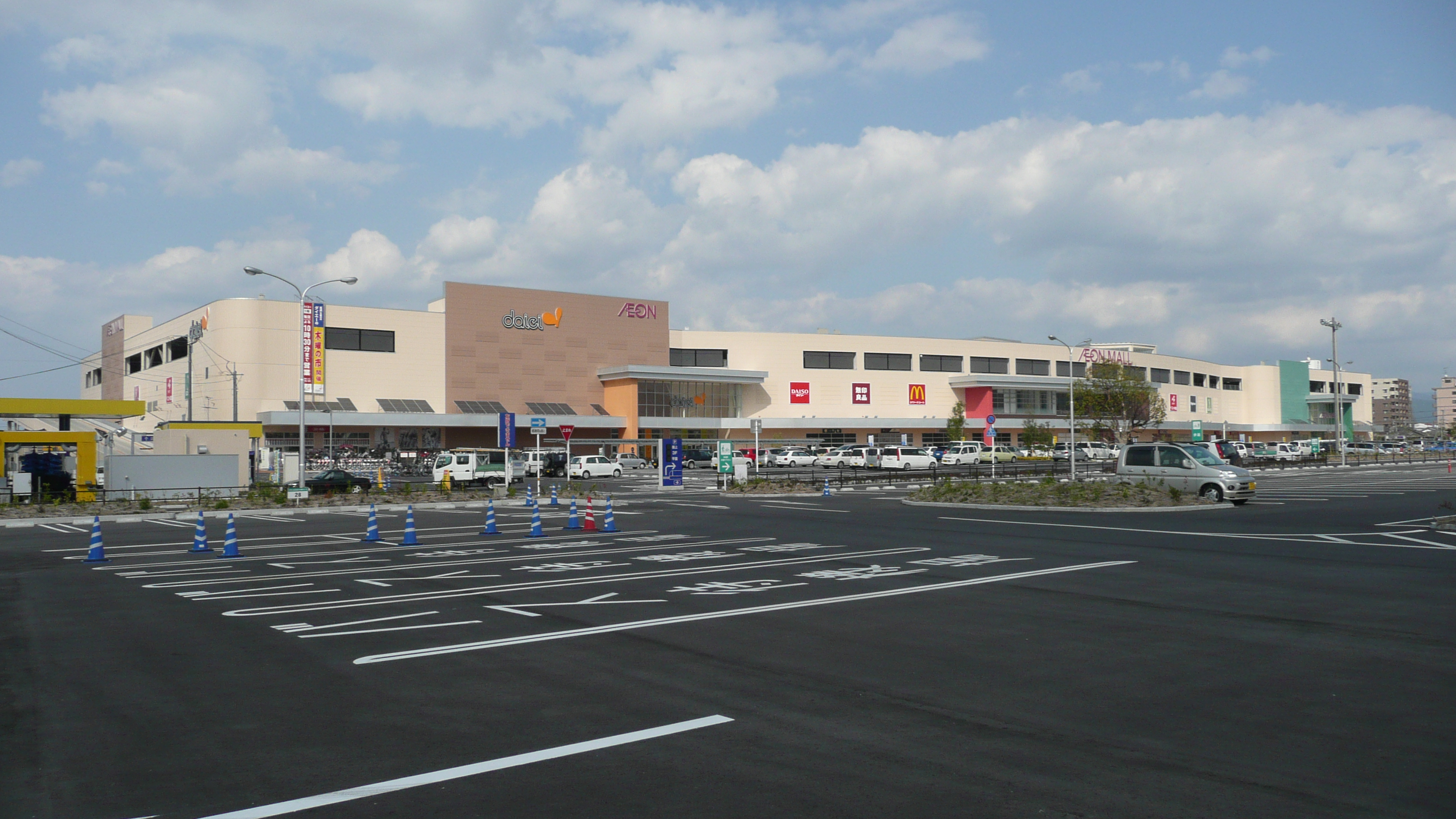 ÆONmall MiELL (Miyakonojo City, Miyazaki, Japan)